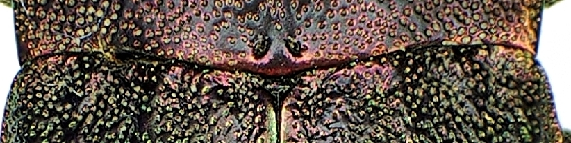 Detail from Perotis lugubris, above: Pronotum, down: Elytra